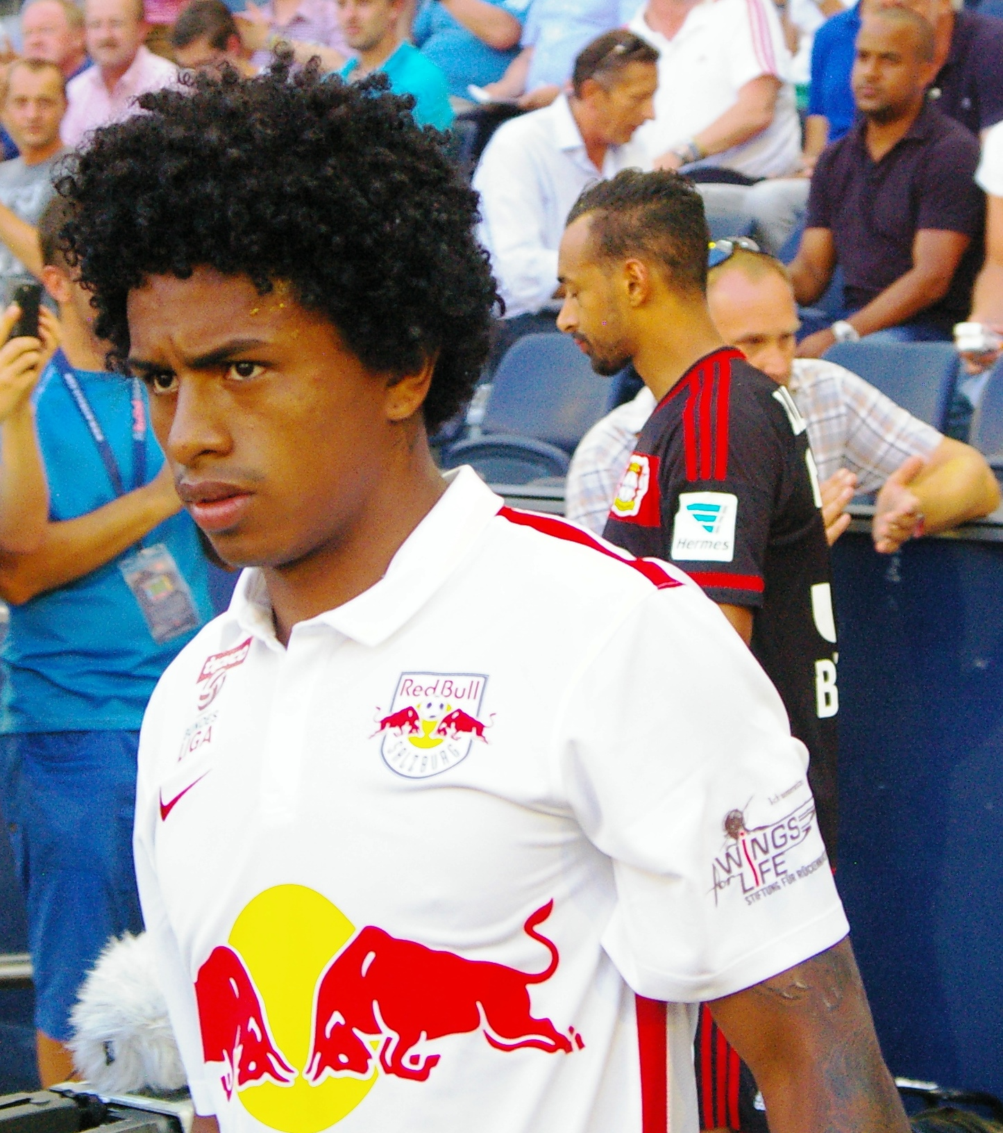 friendly match preseason 2015/16